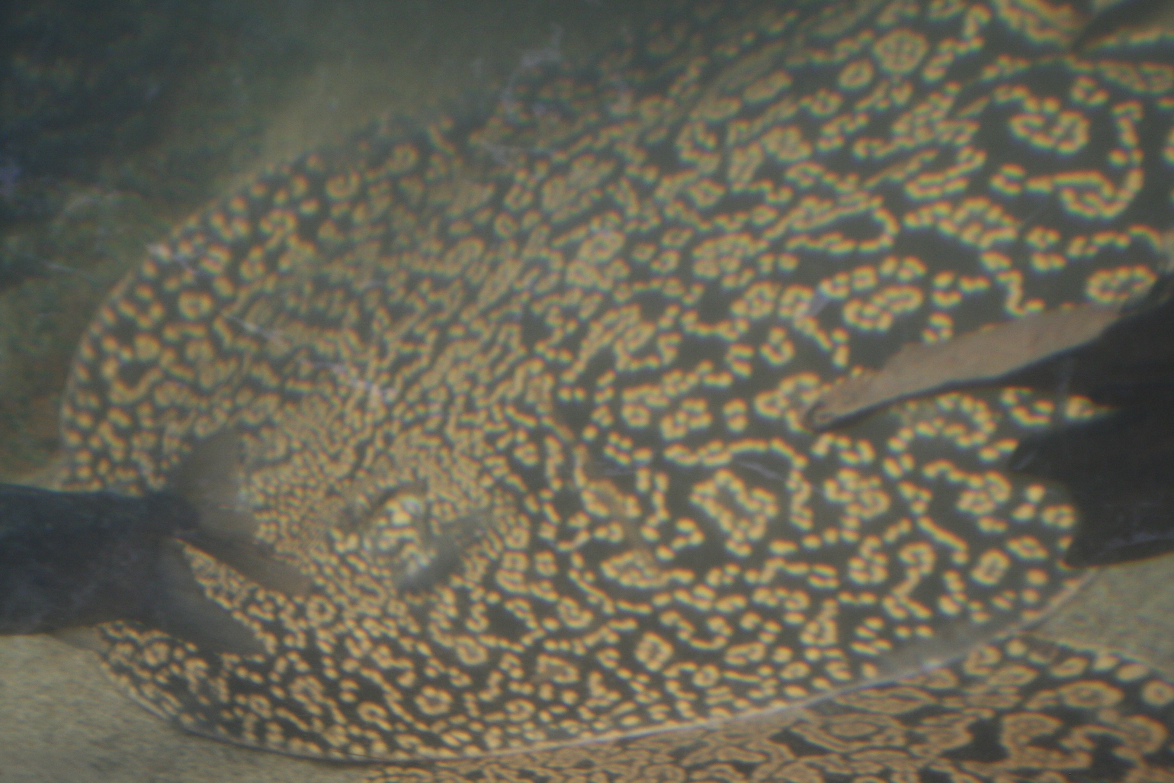 Tiger ray (Potamotrygon tigrina) at the Shedd Aquarium